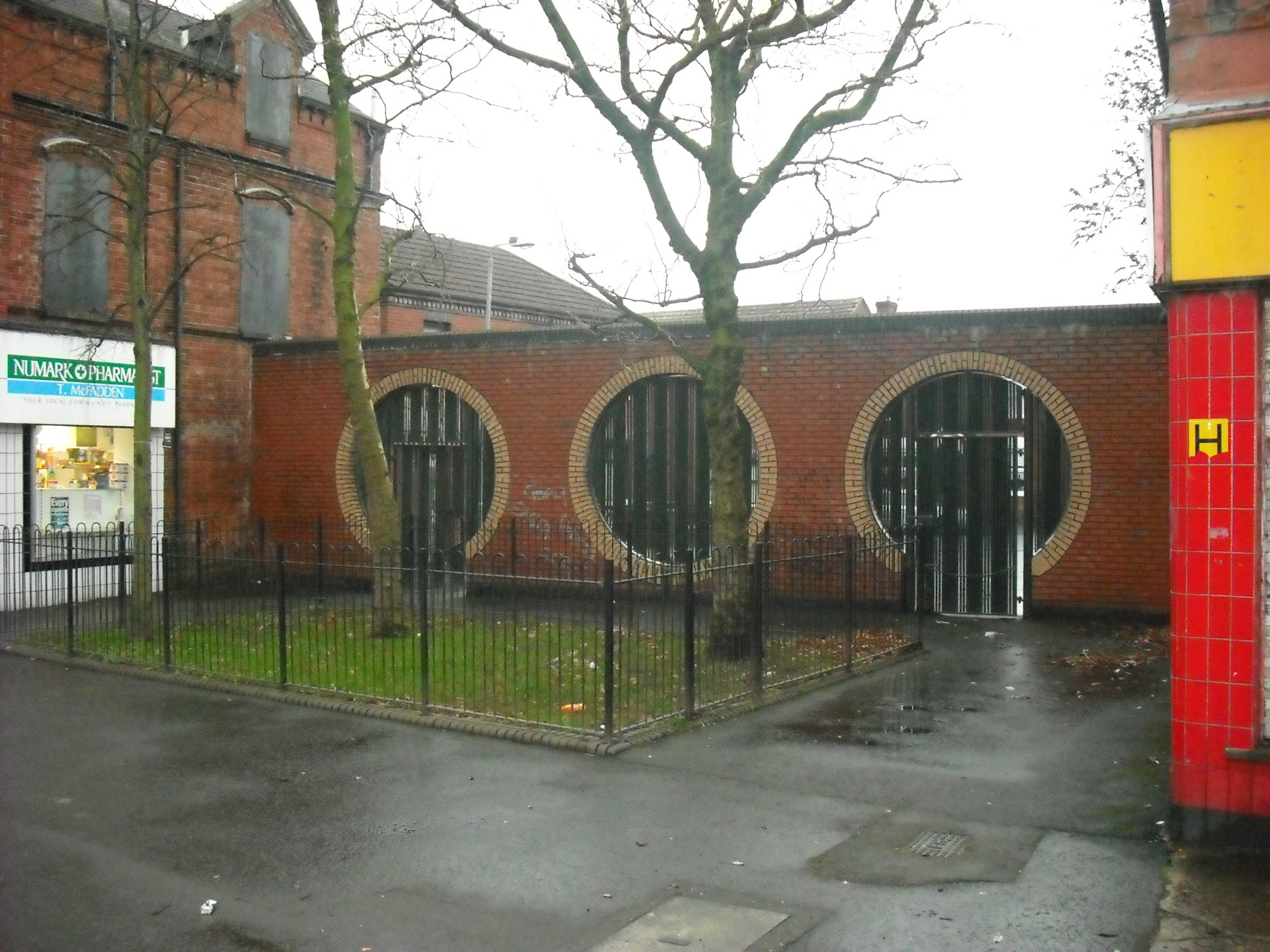 The peaceline at the entrance to Halliday's Road, Belfast